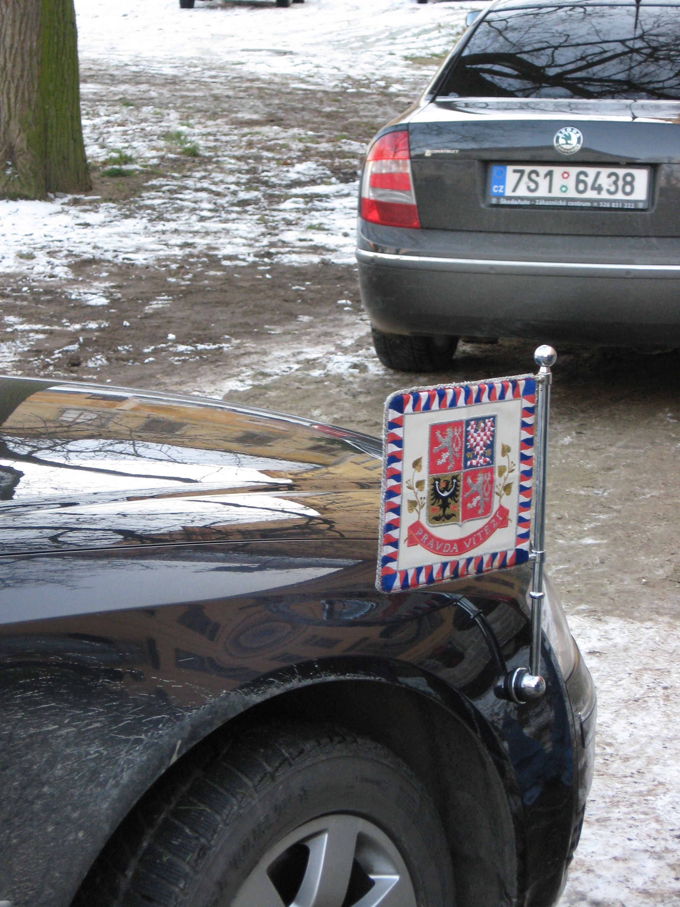 Flag of the President of the Czech Republic